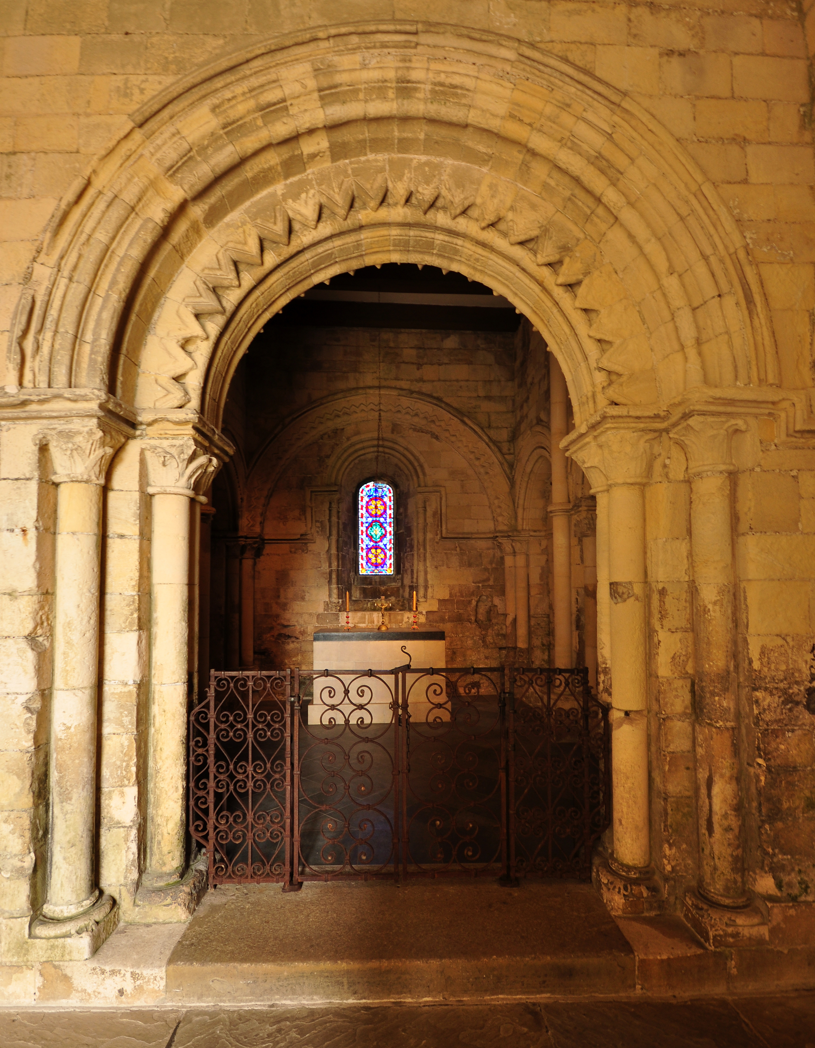 One of the chapels in the keep of Dover Castle